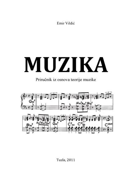 Prirucnik iz osova teorije muzike na bosanskom jeziku